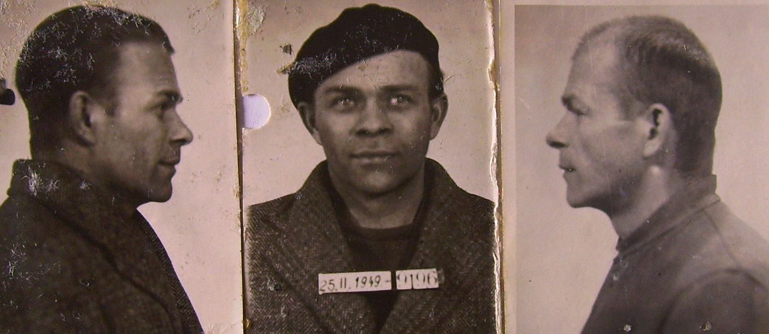 A mugshot of Josef Bryks from Věznice Bory prison.